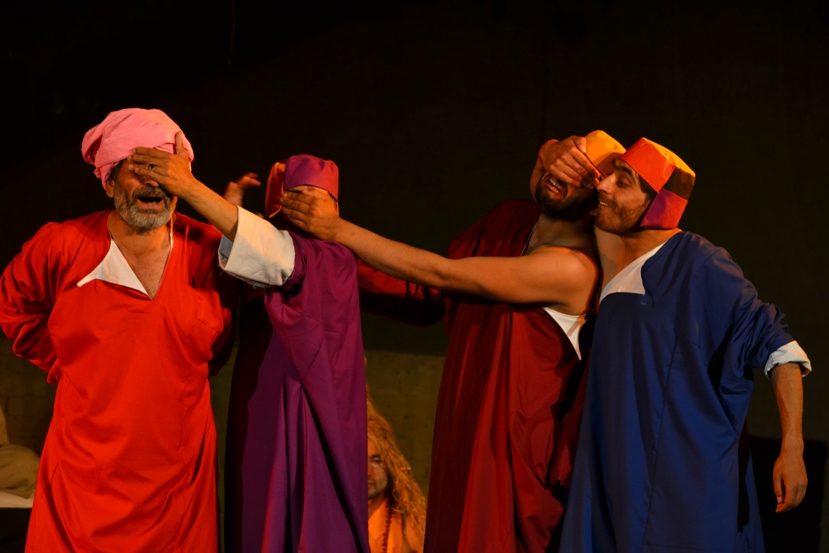 A Bhand Pather performance of Gosain Pather.